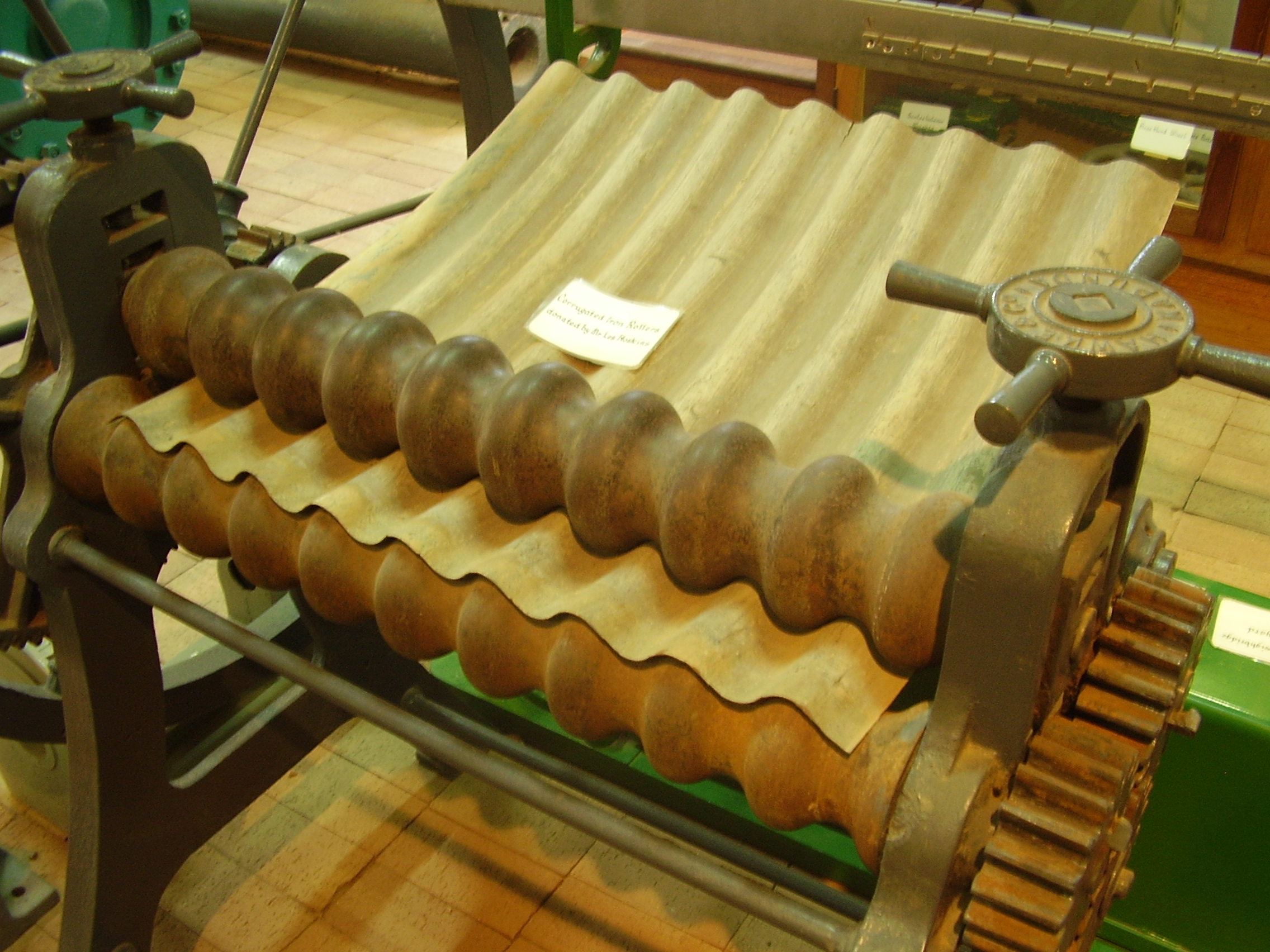 Manual Corrugated galvanised iron rolling machine on display at the Kapunda, South Australia museum.